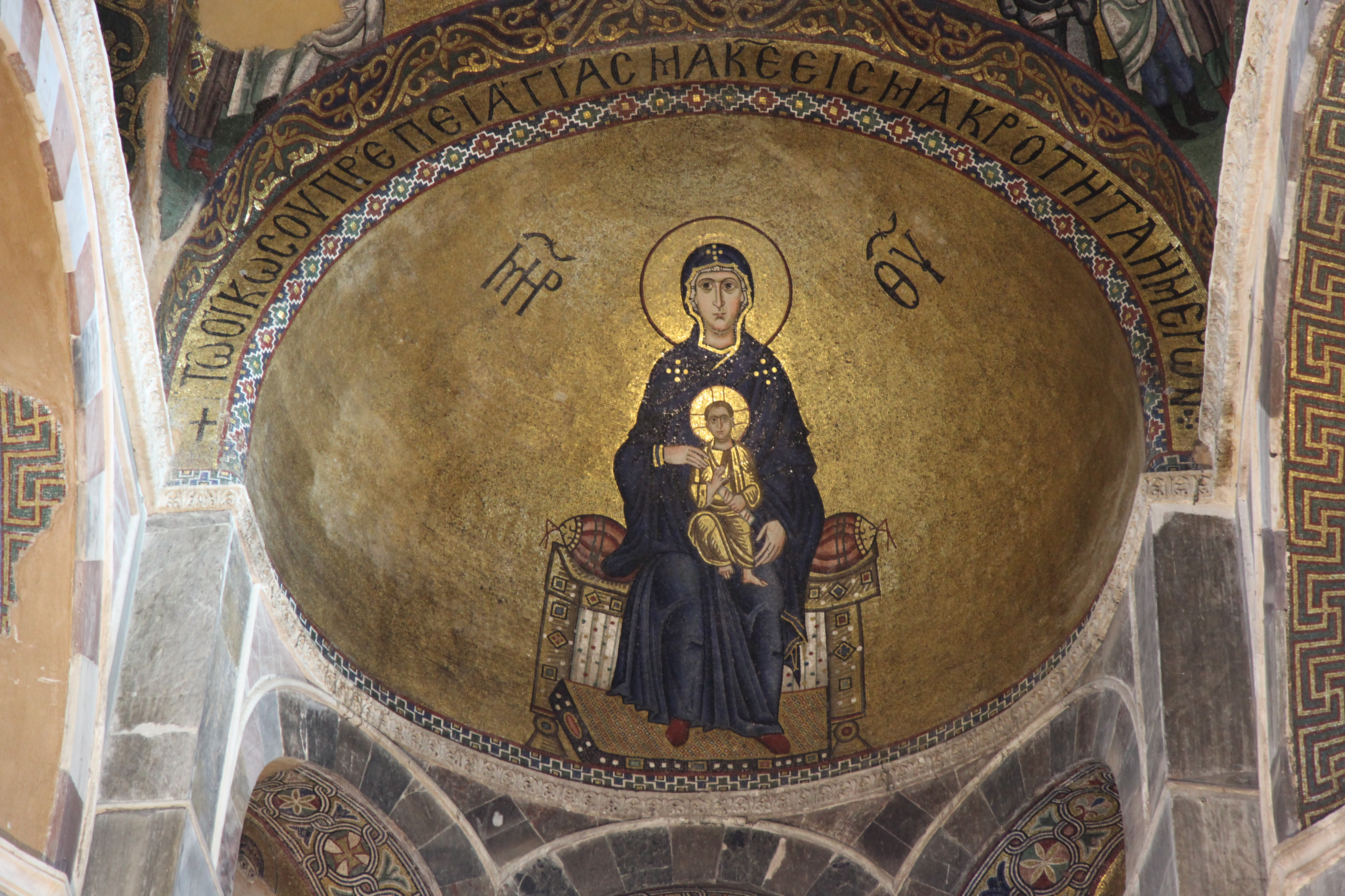 Monastery of Hosios Loukas